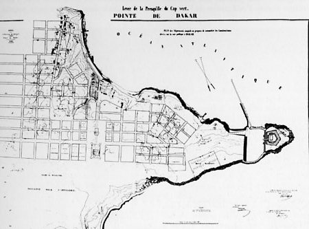 Map of Dakar's peninsula, 1863.